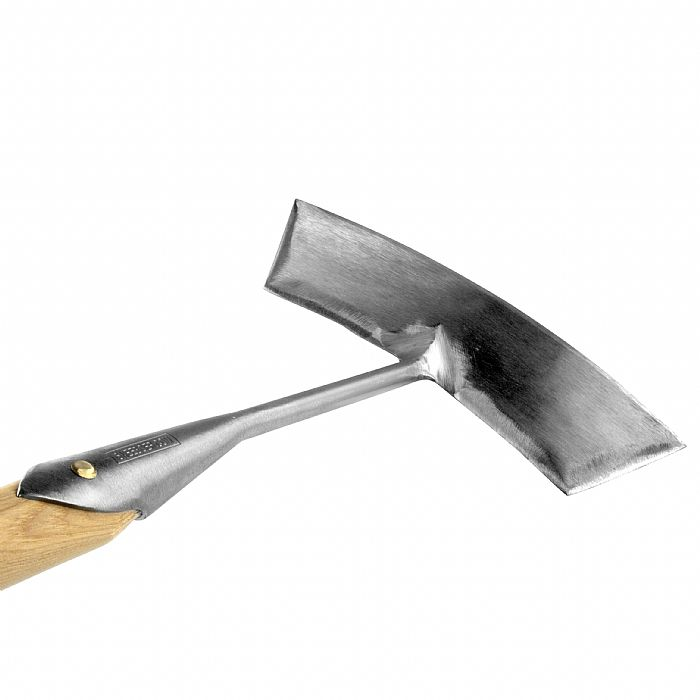 Push Hoe (weeder).